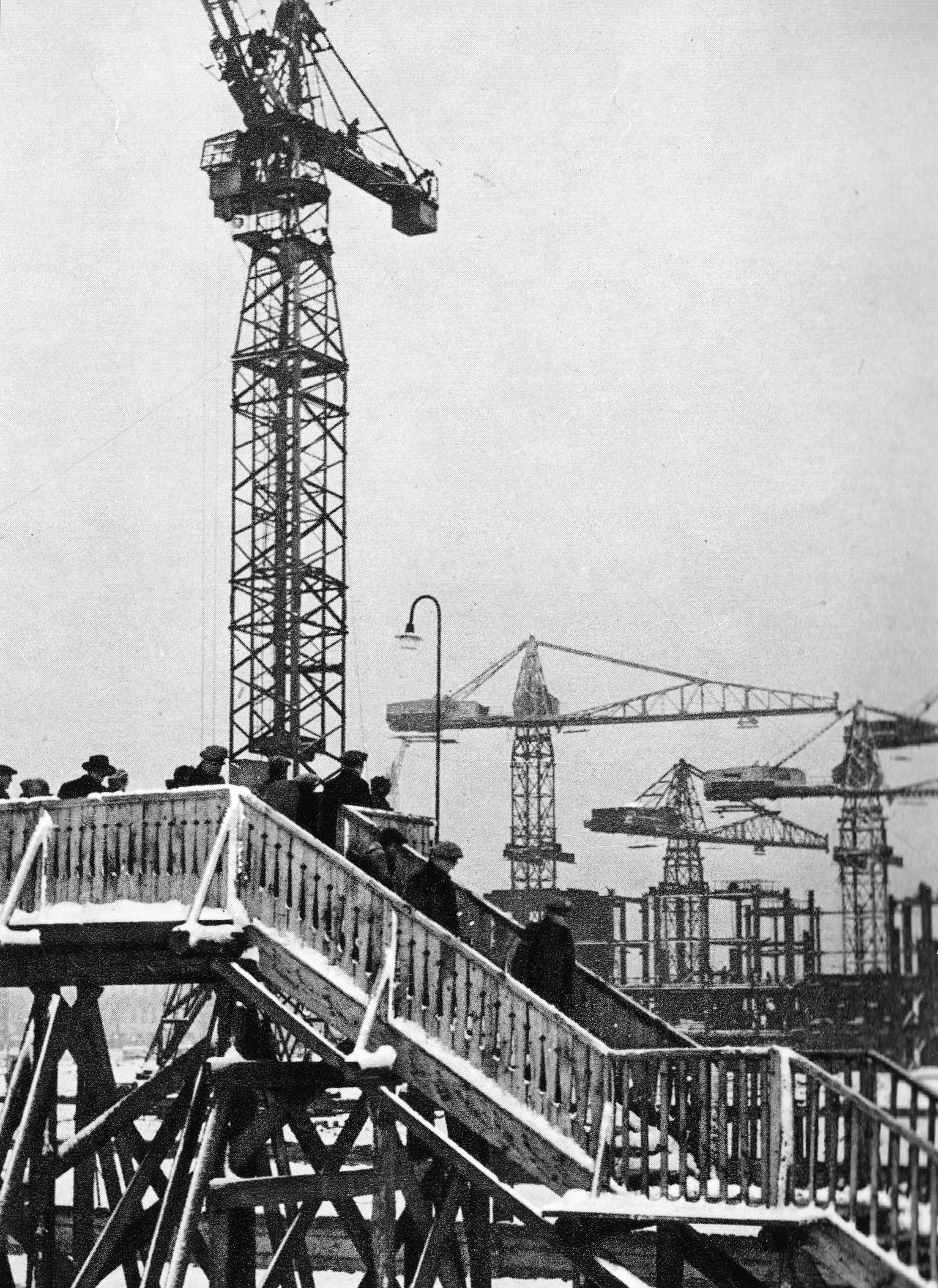 Construction of the Palace of Culture and Science in Warsaw